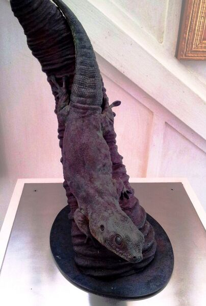 Phelsuma gigas - Giant extinct Rodrigues Gecko - by Nick Bibby